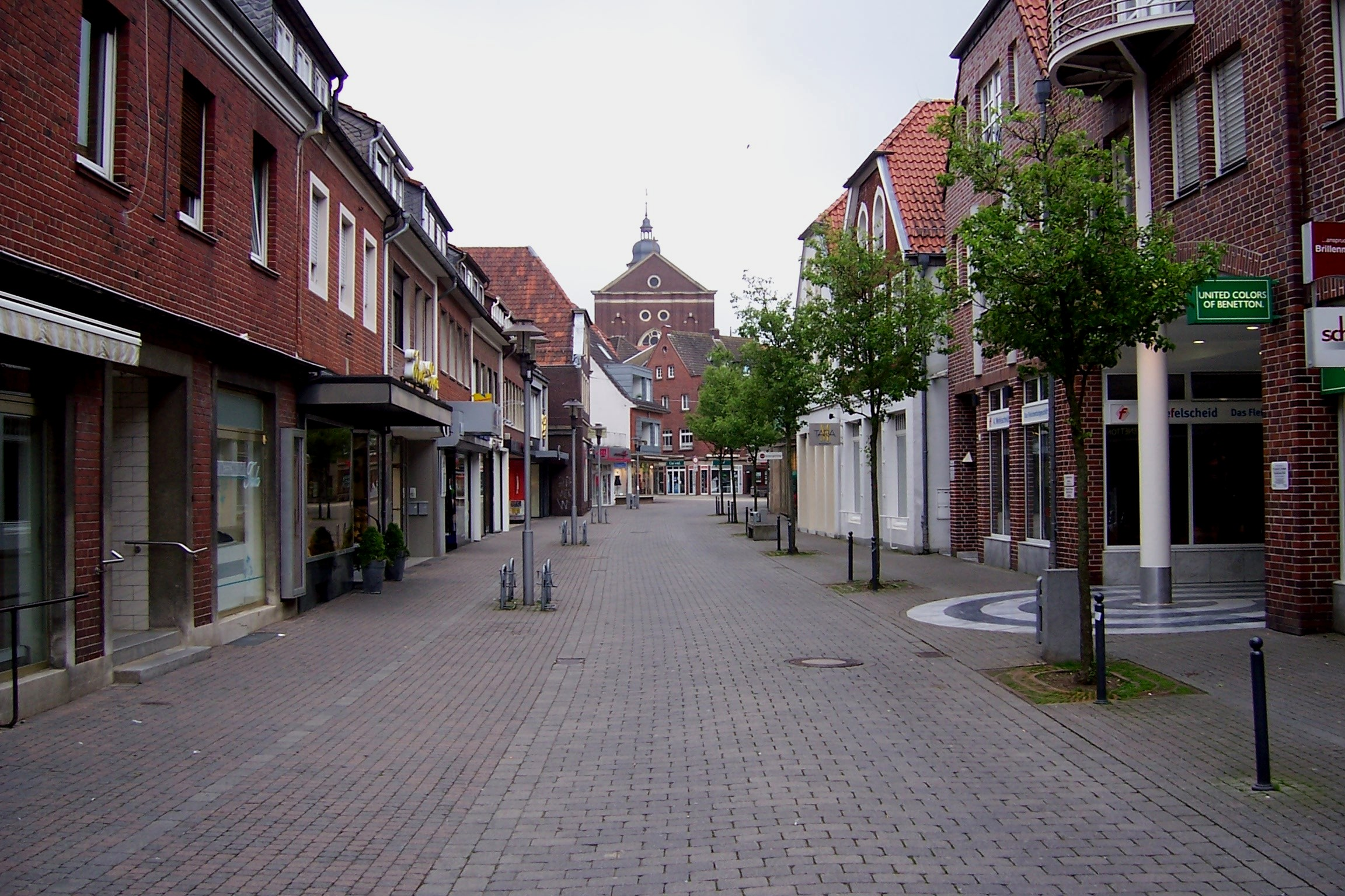 Protestant church in Coesfeld, NRW, Germany; view from Süringstraße. B. t. w. Field Marshal Montgomery passed Süringstraße (and this place) on his Victory tour in 1945.